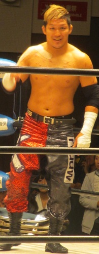 Japanese professional wrestler, Masashi Takeda. Sep 21 2015, BJW Korakuen Hall.